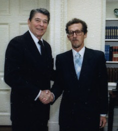 Ronald Reagan and James Bishop (diplomat) in Oval Office in 1987